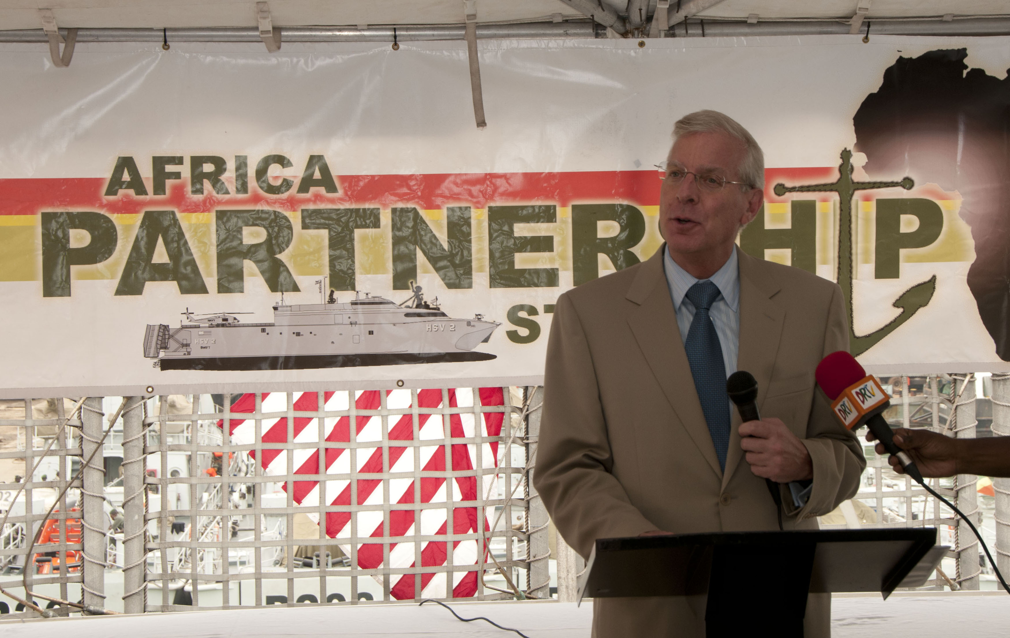 POINTE NOIRE (July 19, 2011) U.S. Ambassador to the Republic of the Congo Christopher W. Murray delivers remarks aboard High Speed Vessel Swift (HSV 2), during a reception as part of Africa Partnership Station 2011. Africa Partnership Station is an international security cooperation initiative intended to strengthen global maritime partnerships through training and collaborative activities in order to improve maritime safety and security in Africa. (U.S. Navy photo by Mass Communication Specialist 3rd Class Ian Carver/Released)